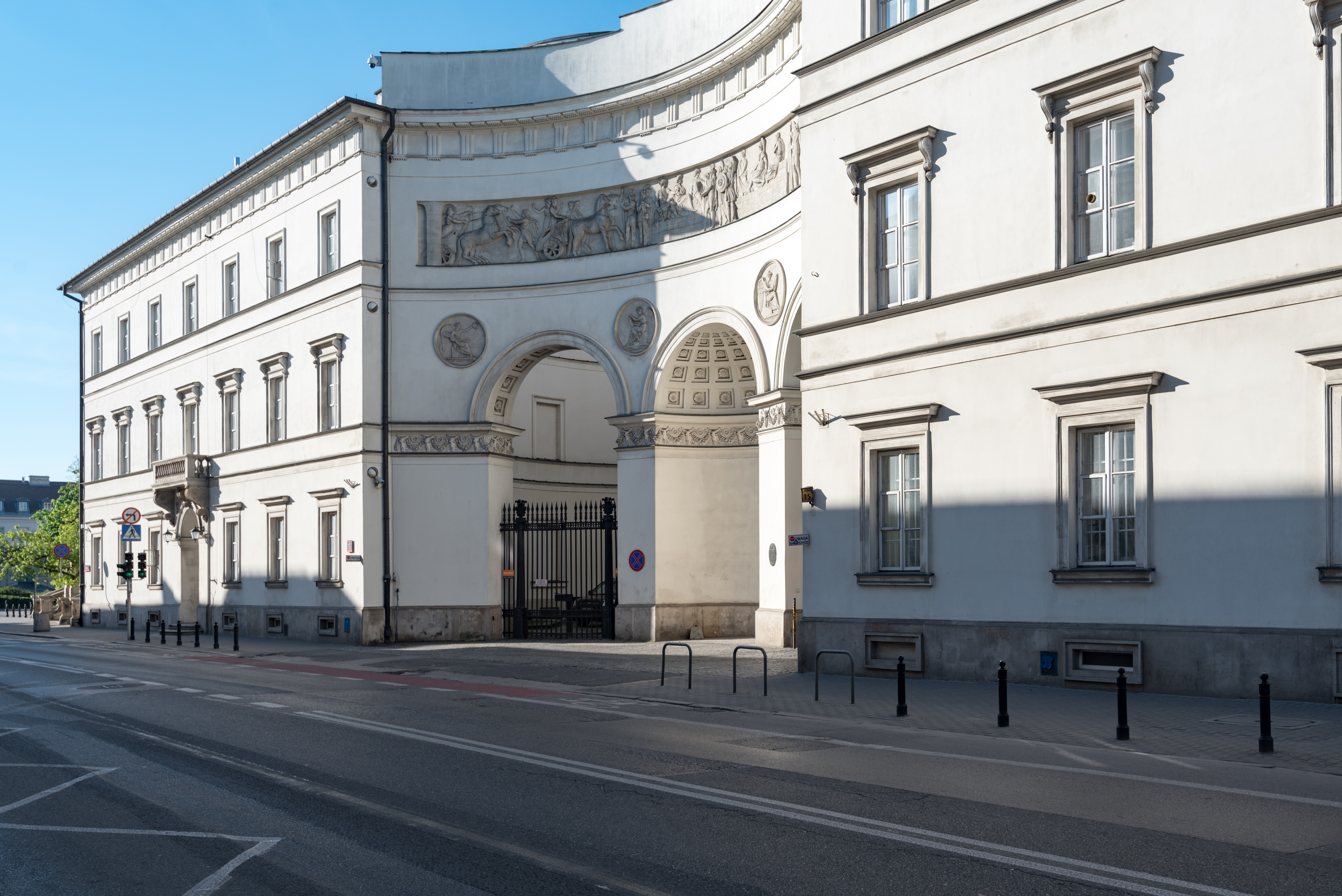 Warszawa, pl. Grzybowski 3-5